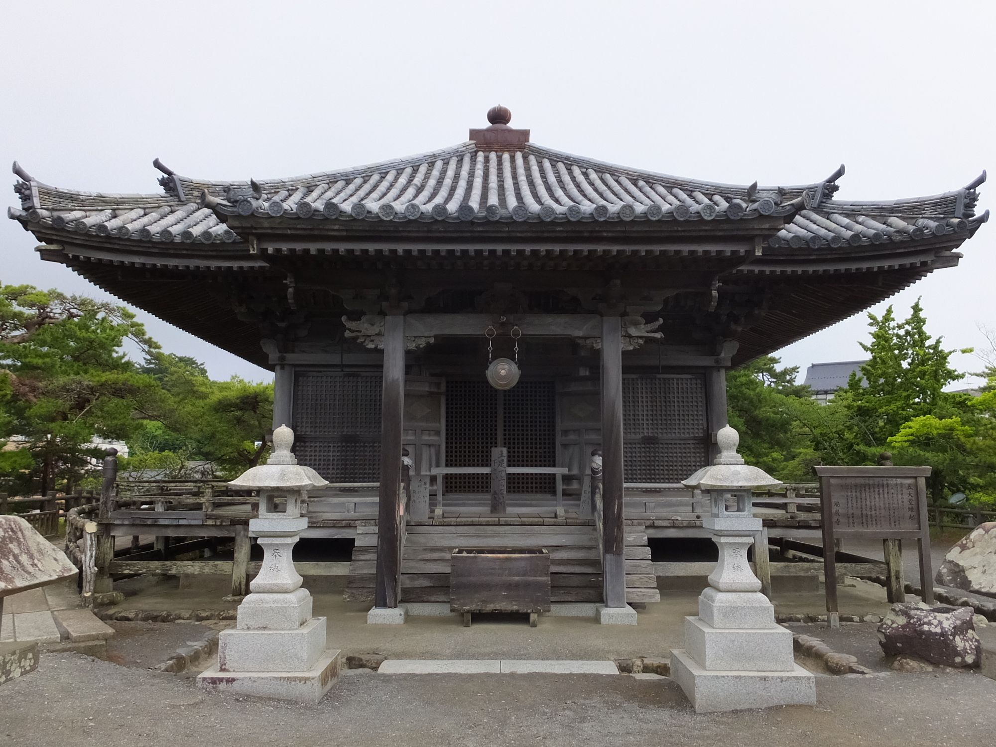 Godaidō hall in Matsushima, Miyagi